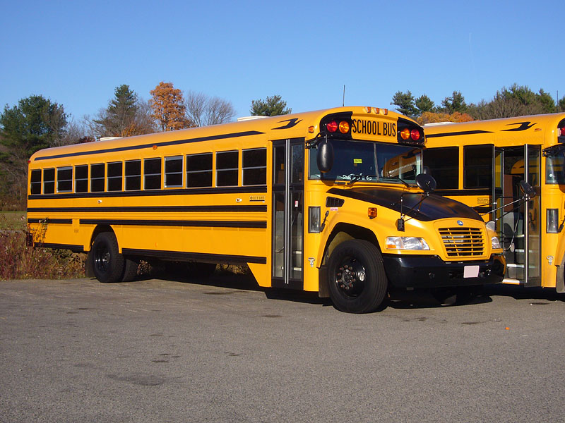 A 2009 Blue Bird "Vision" school bus.